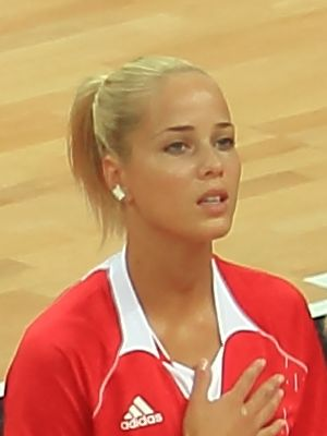 Antonija Mišura of the Croatian Women's Basketball team prior to their match with Angola in the Group A preliminary rounds for the London 2012 Olympic Games.